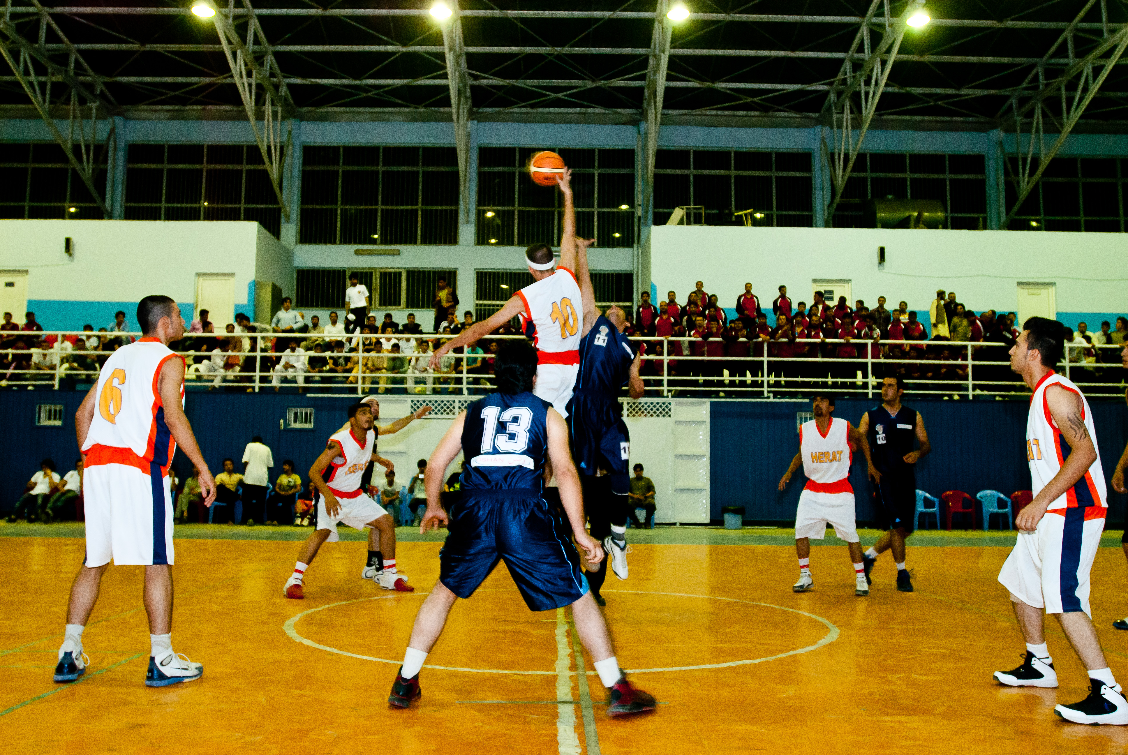 Kabul City bested Badghis the first game of the evening. The winners of the Saturday games will then face off in the upcoming finals. ISAF has helped support the refurbishment of the Ghazi Olympic Complex. U.S. Air Force photo by Staff Sgt. Nestor Cruz